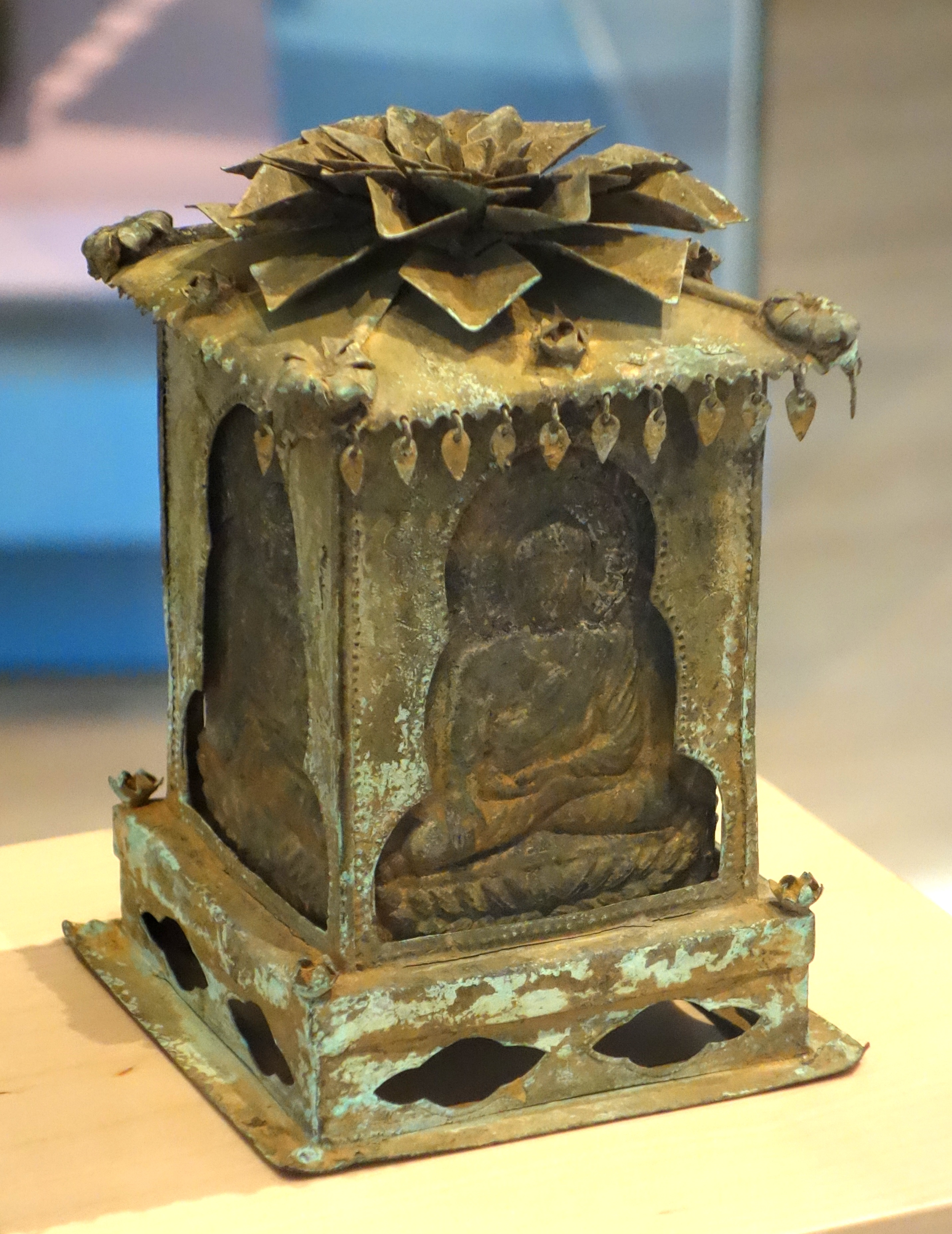 Exhibit in the Royal Ontario Museum, Toronto, Ontario, Canada. This work is old enough so that it is in the public domain.